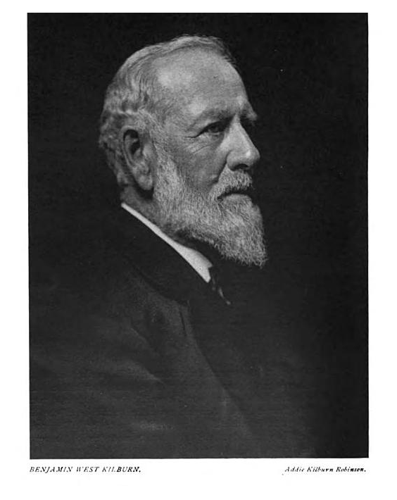 Stereoscopic views of the World